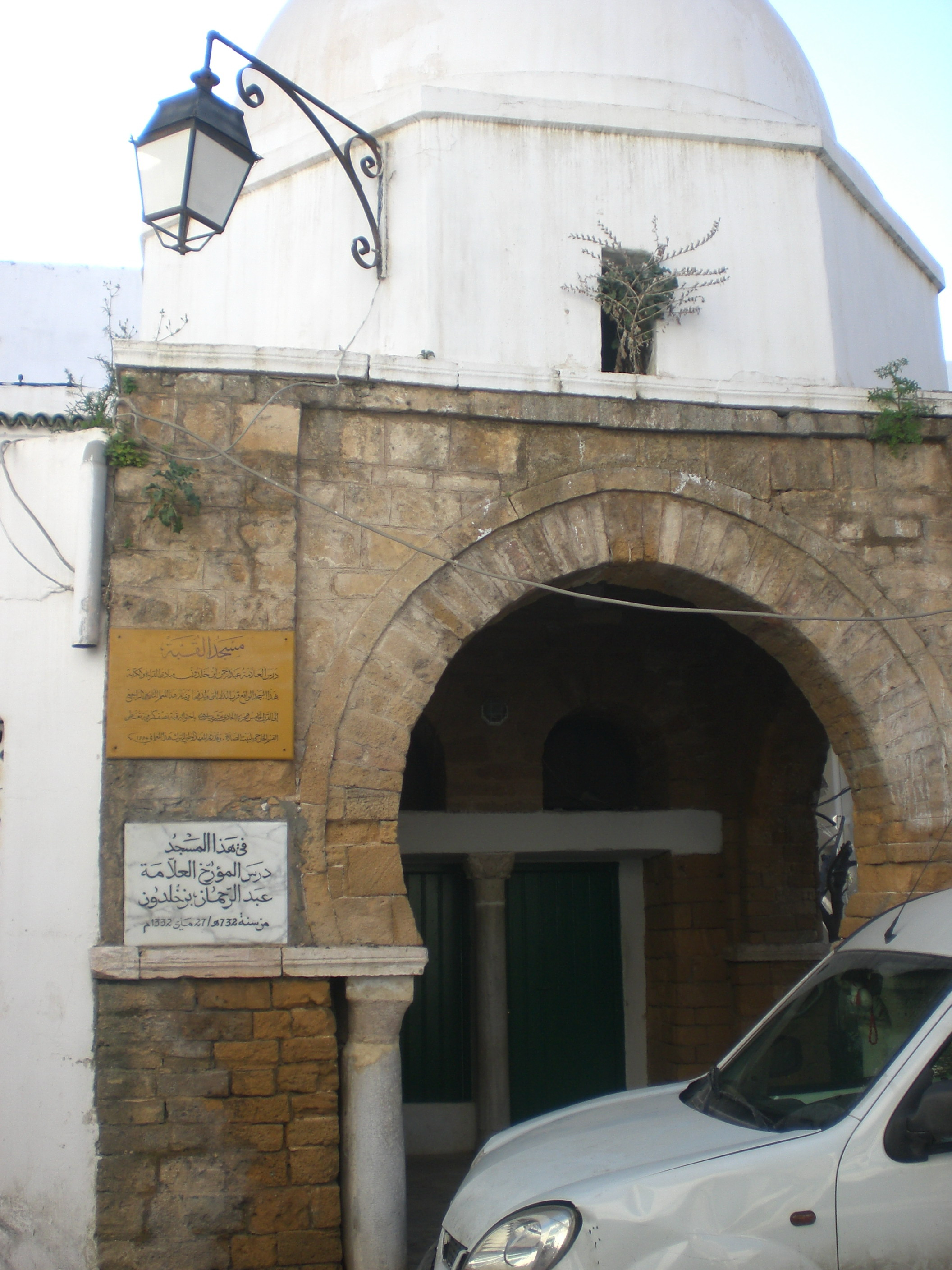 The mosque where Ibn Khaldoun studied in Tunis